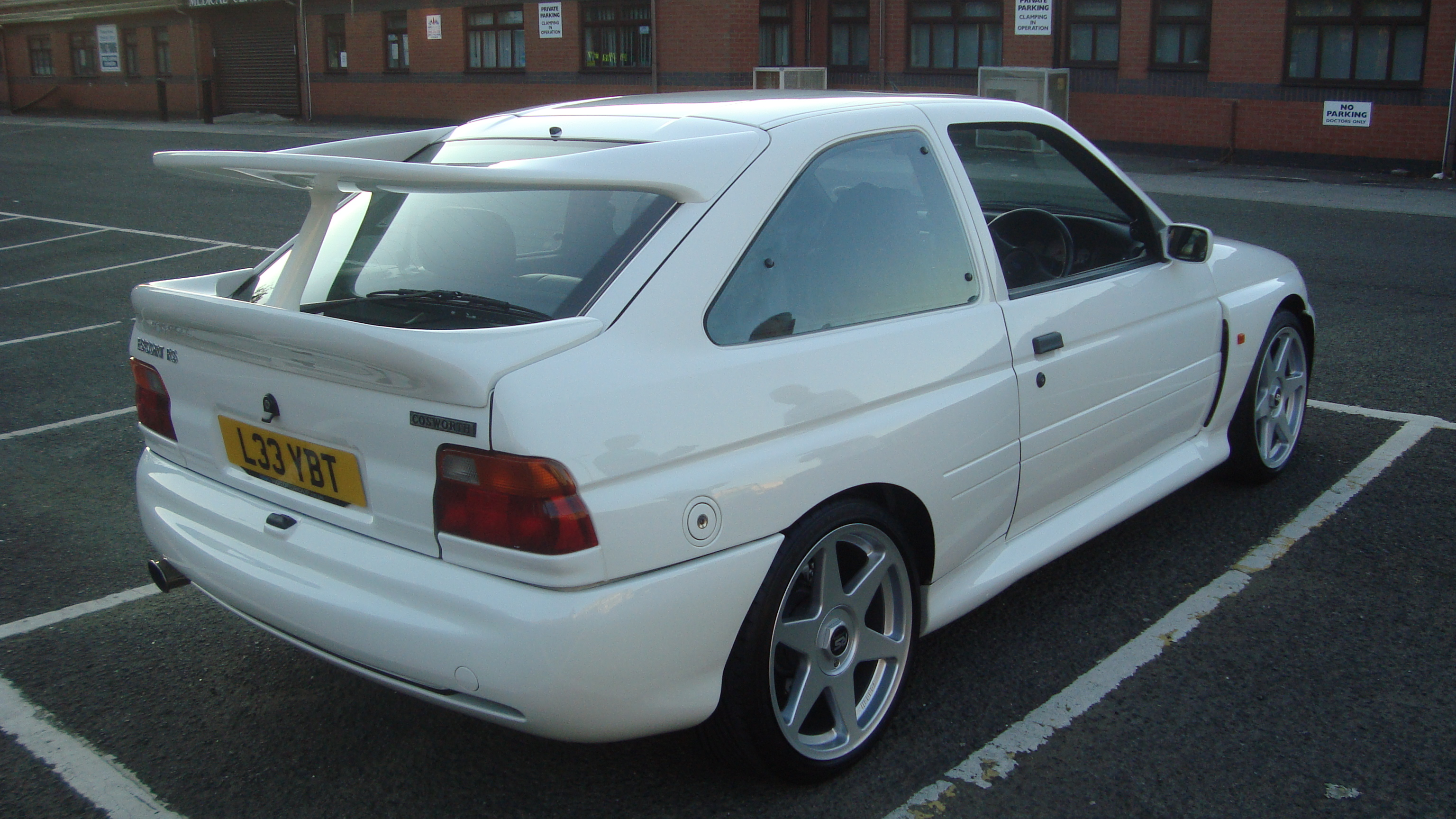 1993 Ford Escort RS Cosworth Luxury